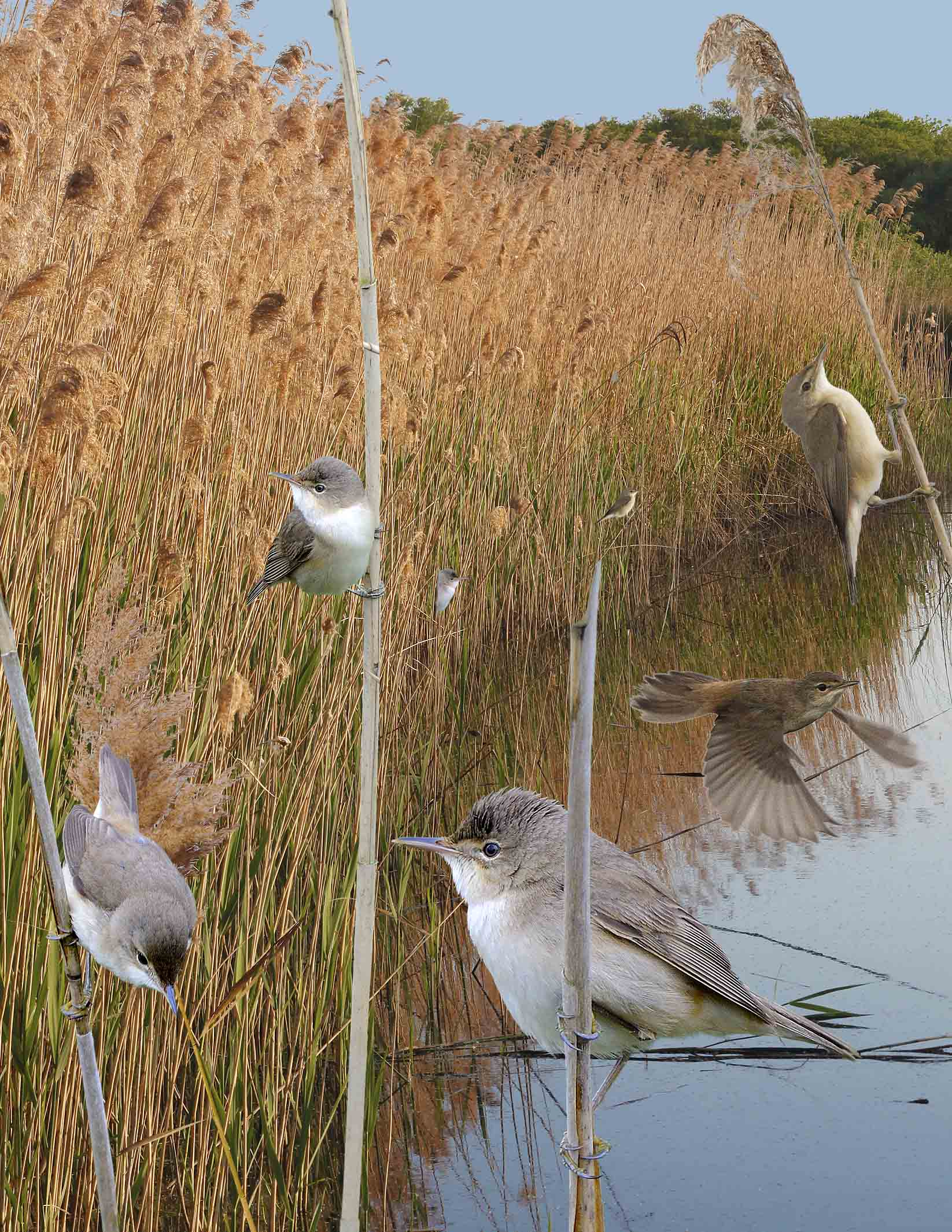 Reed Warbler from the Crossley ID Guide Britain and Ireland